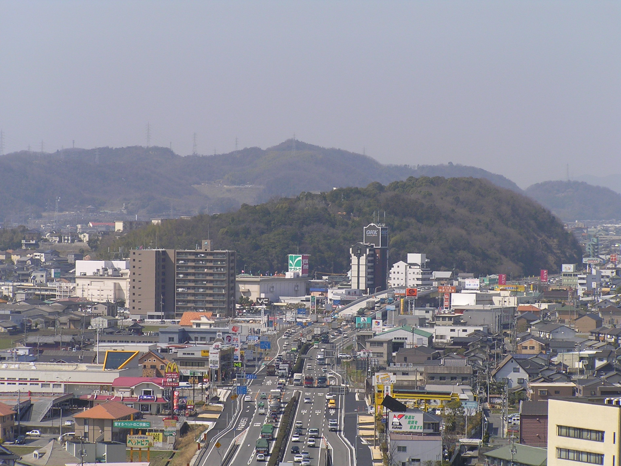 The vicinity of Sasaoki intersection seen from Kasuyama.